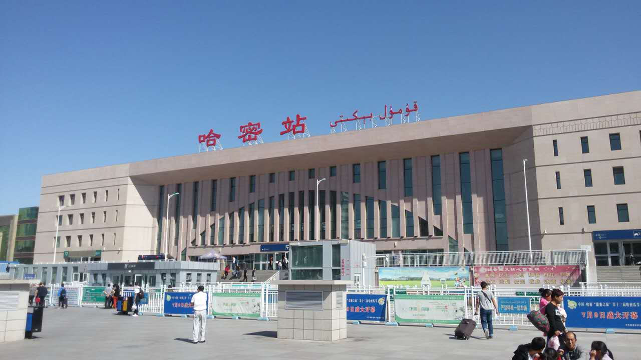 Train station in Hami, Xinjiang in 2016